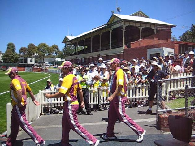 Taken by Ian Broadbent 11 December 2005